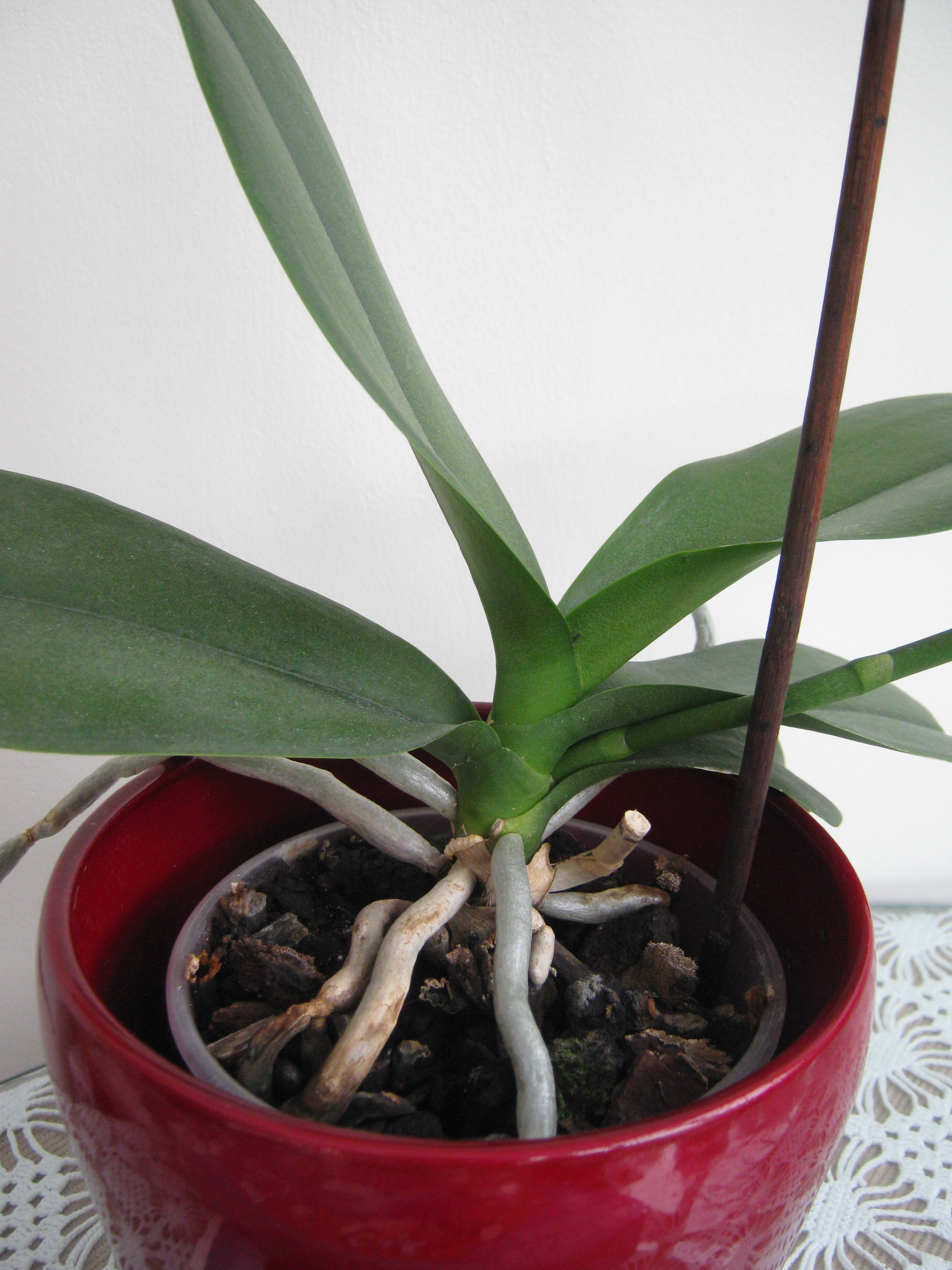 A young phaelinopsis plant in flower showing a monpodial style of growth.